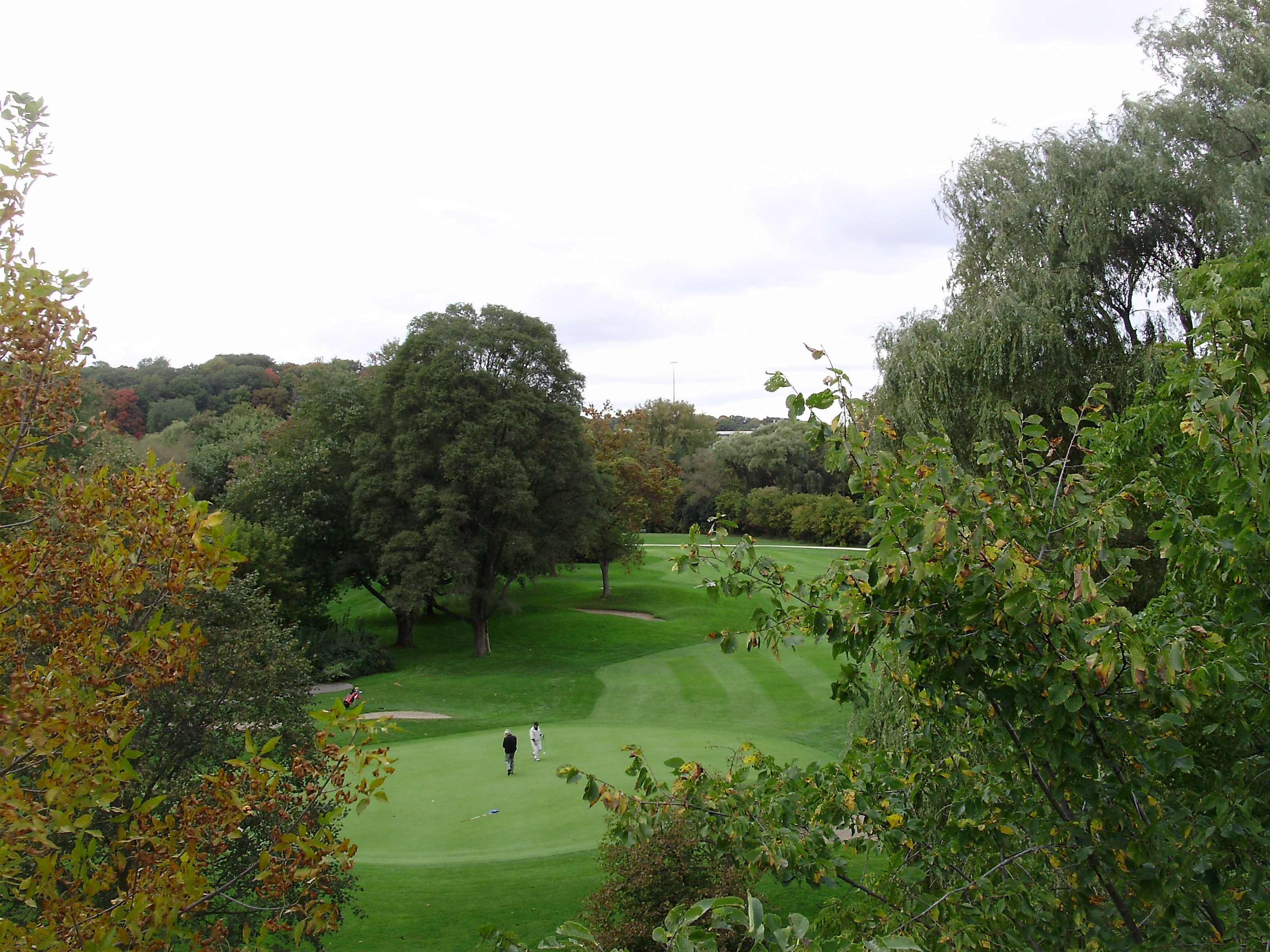 The Don Valley Golf Course, photographed here from Wilson Avenue, is laid out in the Don River Valley of York Mills in North York, Ontario, Canada.